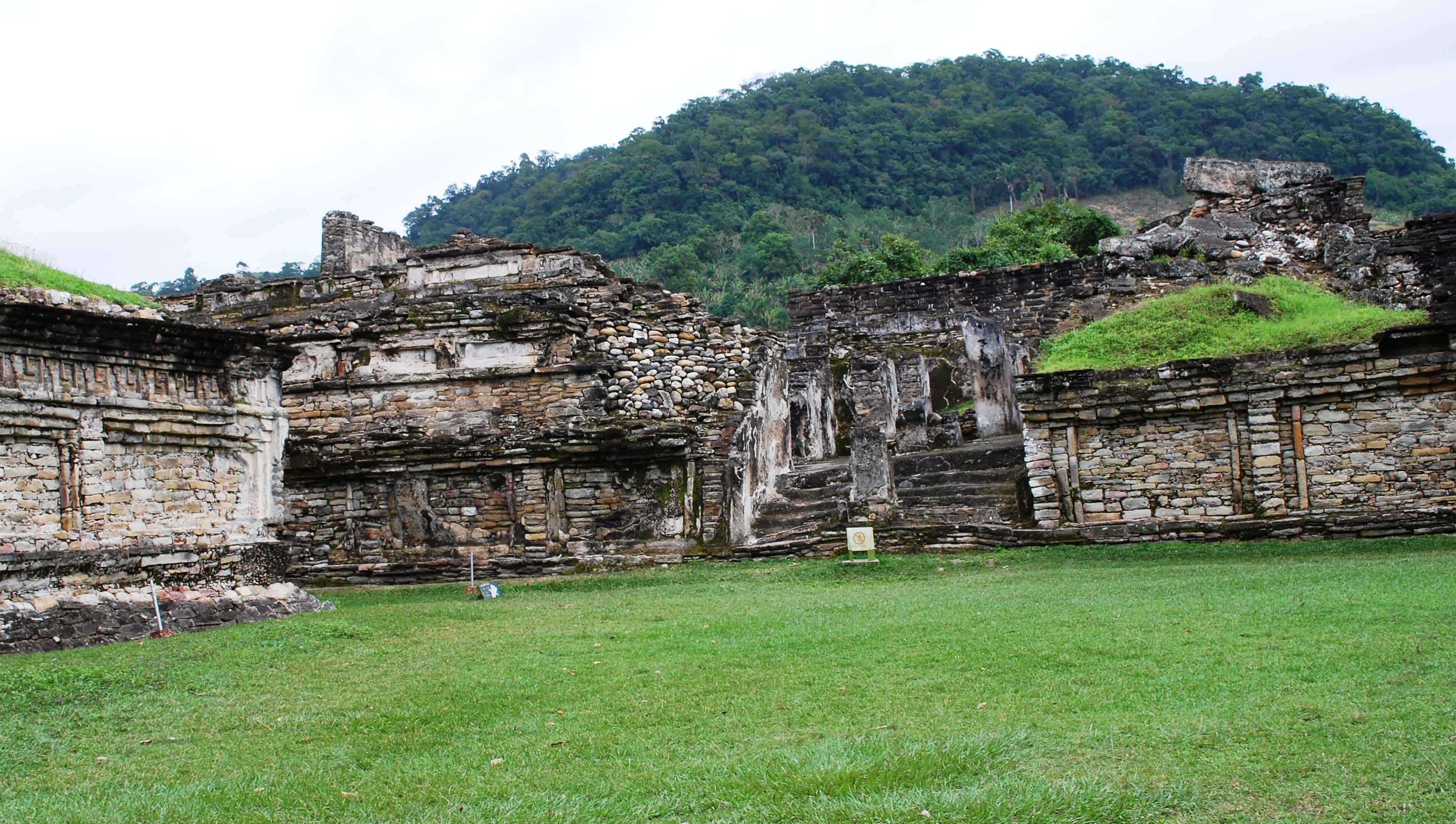 Building B in the Tajin Chico Section of Tajin, Veracruz, Mexico